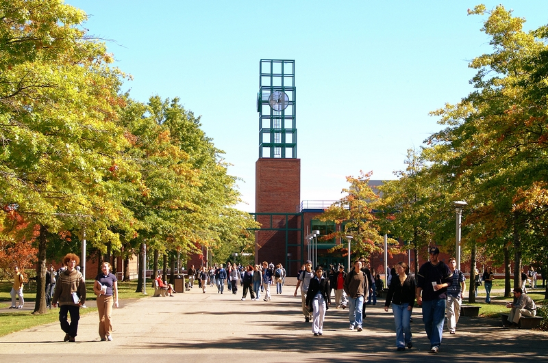 Binghamton University Campus Alley, University Union, Clock Tower